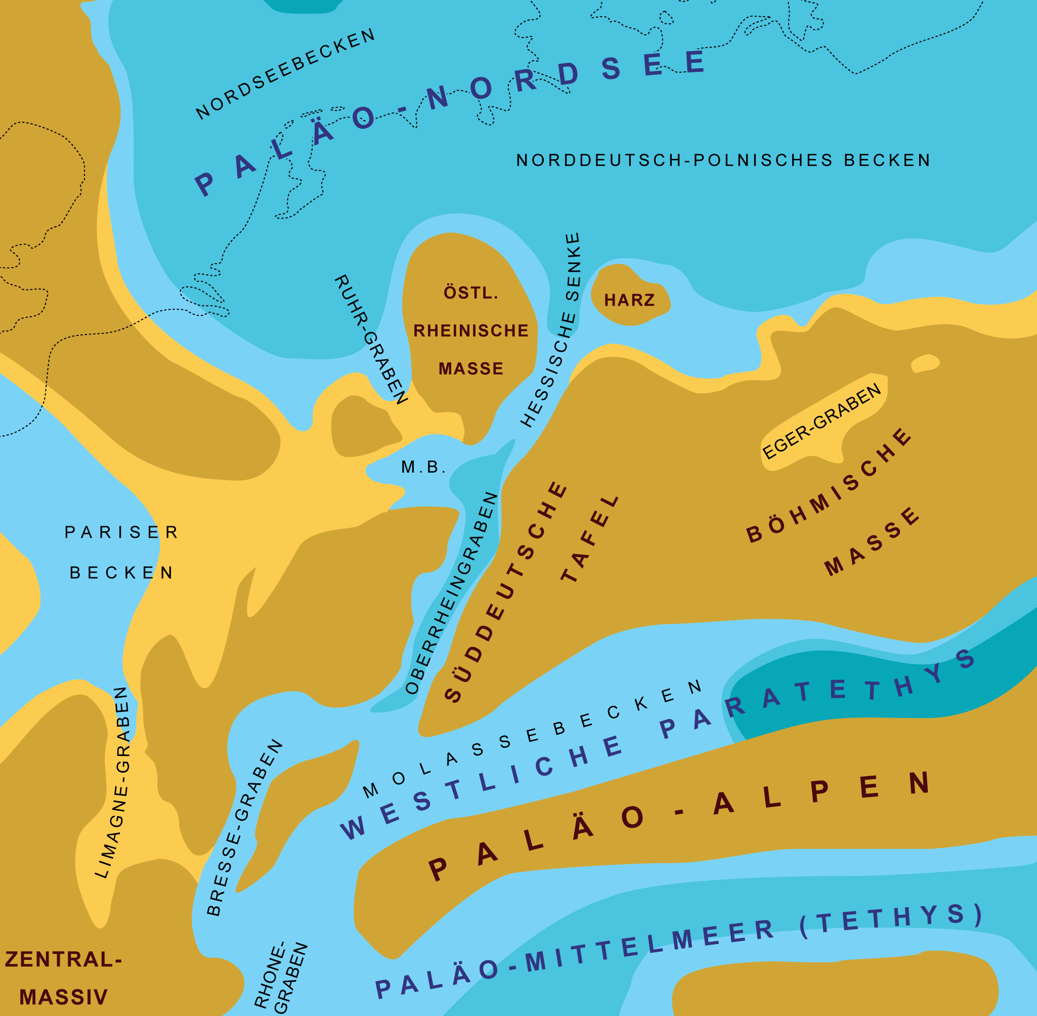 Map of Central Europe showing the principal paleogeography for the late Early Oligocene (late Rupelian), after Ziegler (1990).[1] Note that a connection between the Paleo North Sea and the southern seas (Mediterraneran, Paratethys) did not exist throughout the Rupelian but for a relatively short time in the middle Rupelian only. Also, the Upper Rhine Graben (Oberrheingraben) and the Mainz Basin (Mainzer Becken) experienced a strong decrease in salinity in the younger Rupelian, implying that at least parts of the connections to the open sea must have been very narrow at that time. Abbreviations: M.B. = Mainz embayment. ↑ a b P. A. Ziegler (1990): Geological Atlas of Western and Central Europe. Shell Internationale Petroleum Maatschappij B. V., The Hague